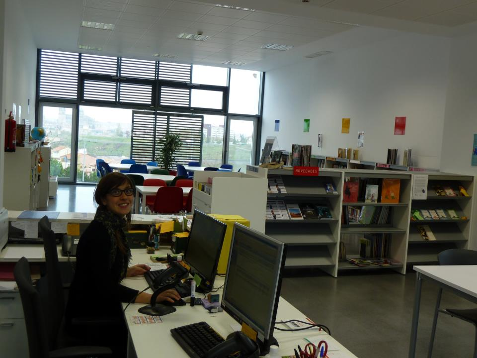 Biblioteca Municipal de Vistahermosa